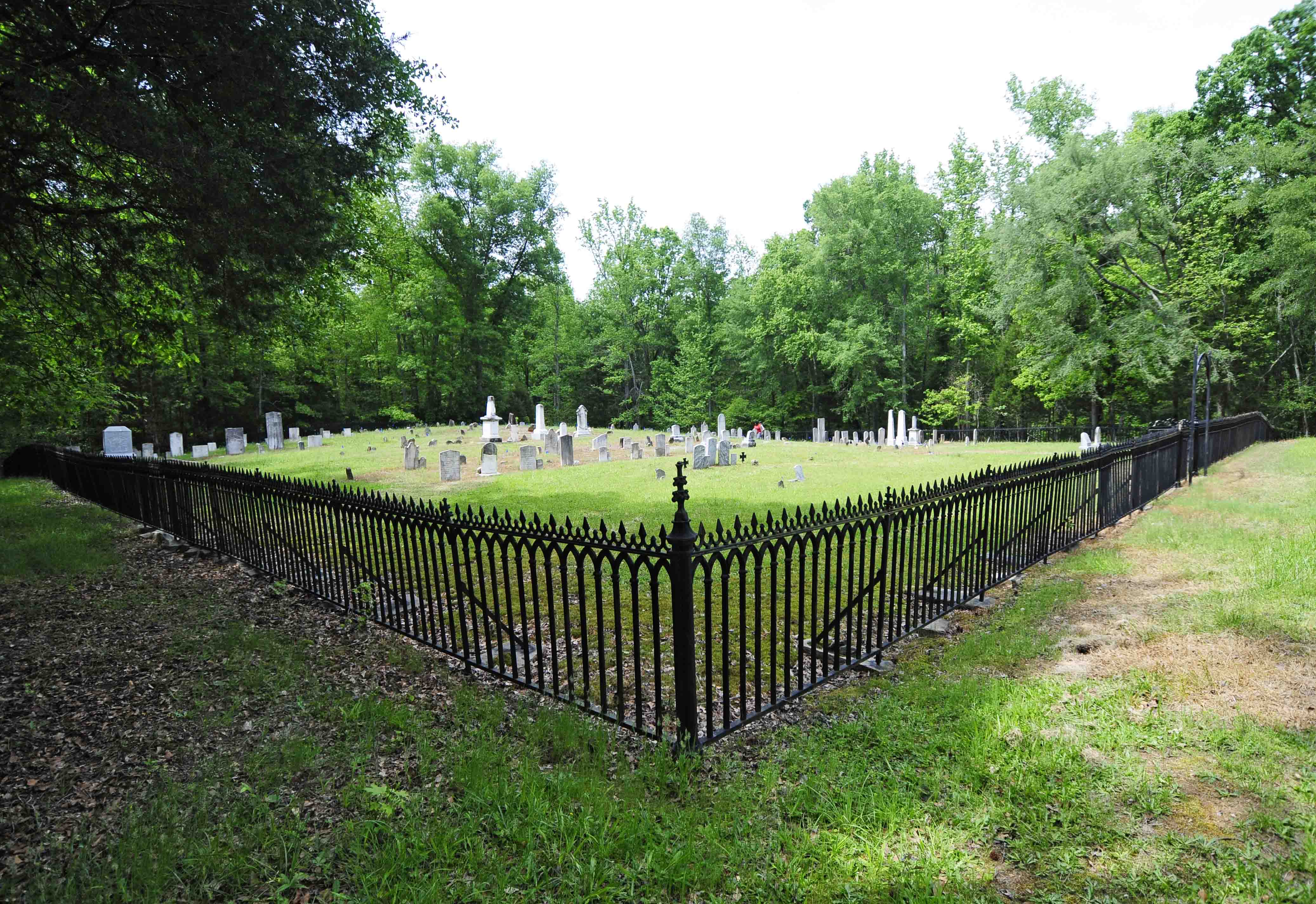 Lindsay Cemetery, Abbeville County, South Carolina